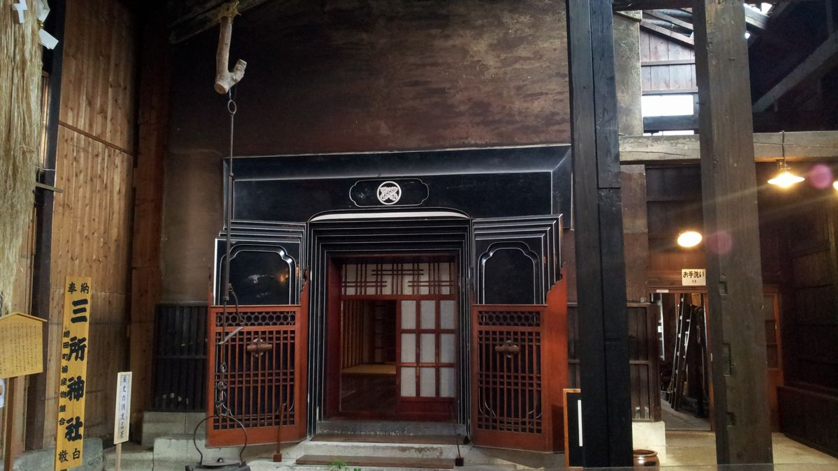 Inside the warehouse of the Masuda Tourism and Product Sales Center "Kura no Eki"